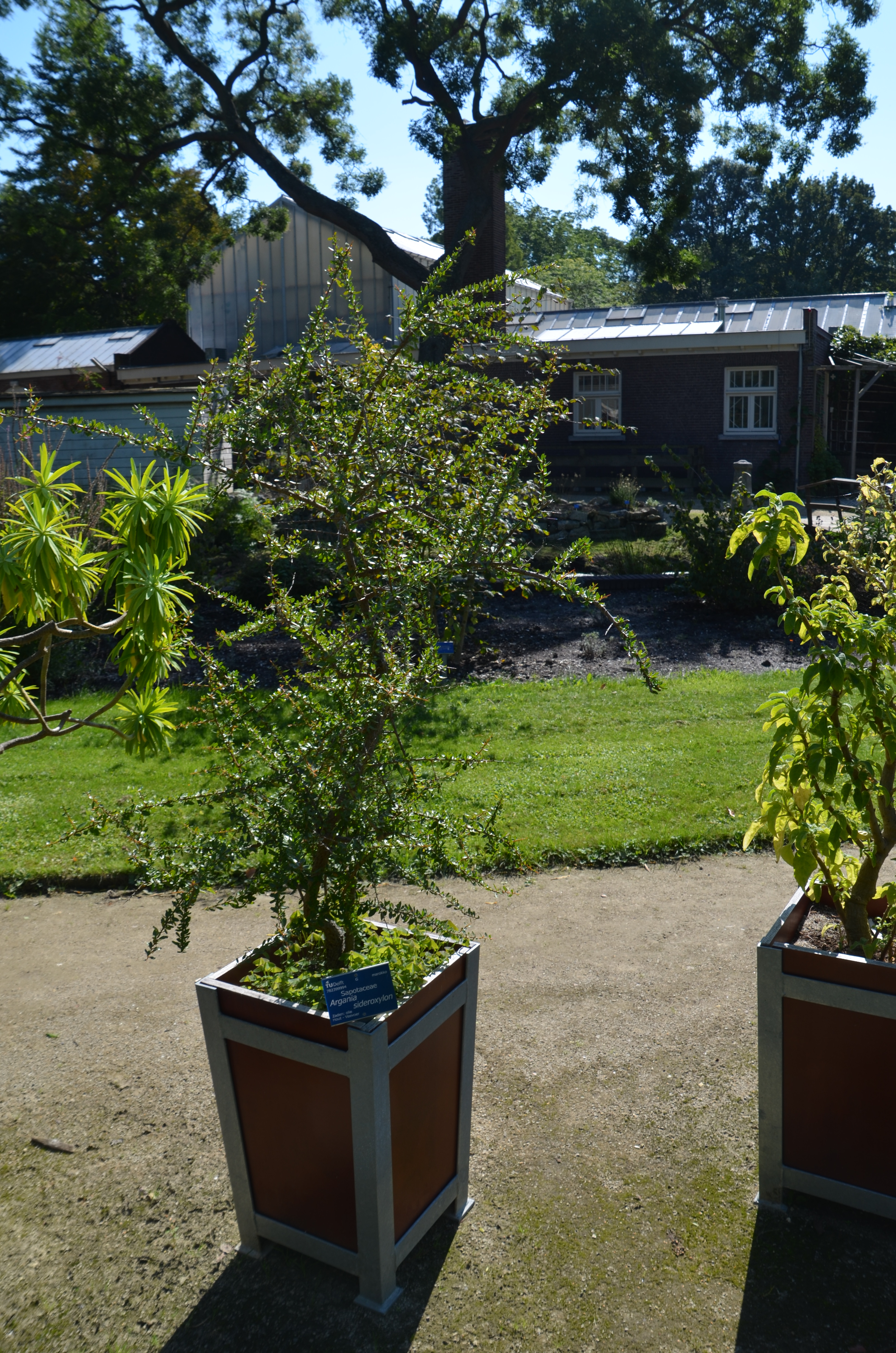 Argania sideroxylon in the botanical garden of the T.U.Delft in 2015